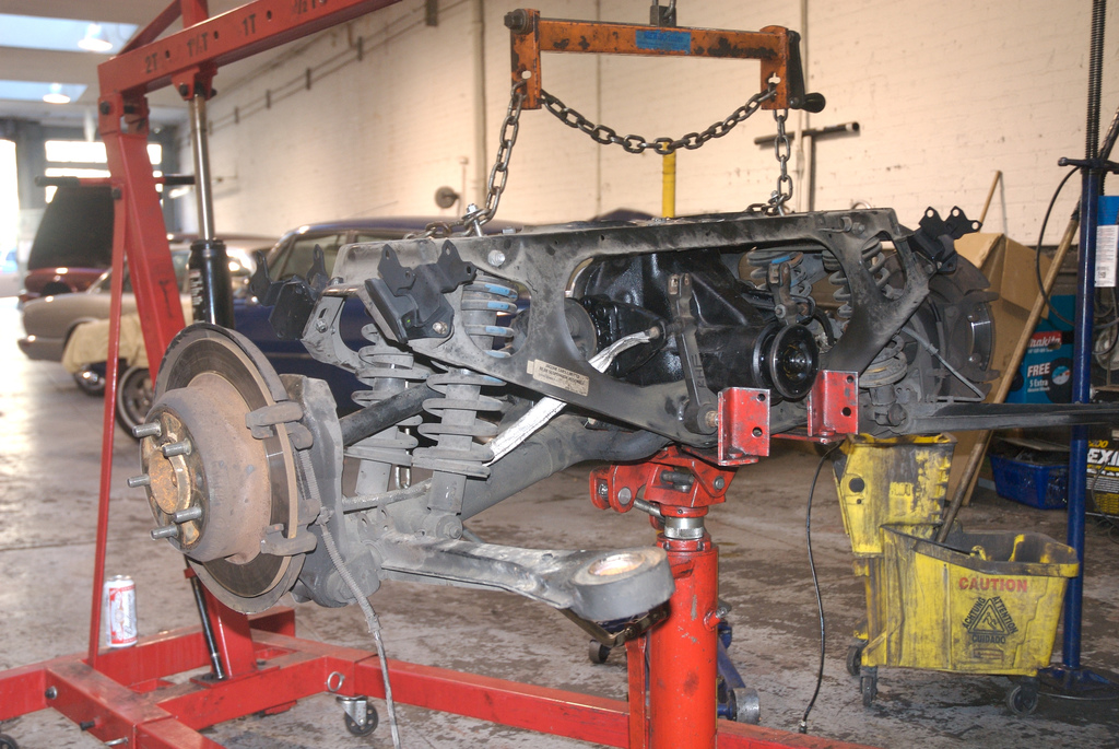 For the 1993 to 1996 specification of Jaguar's IRS, the brake discs were moved from inboard (next to the differential) to outboard. This was achieved using the hub carriers from the XJ40's suspension, which are dimensionally compatible.